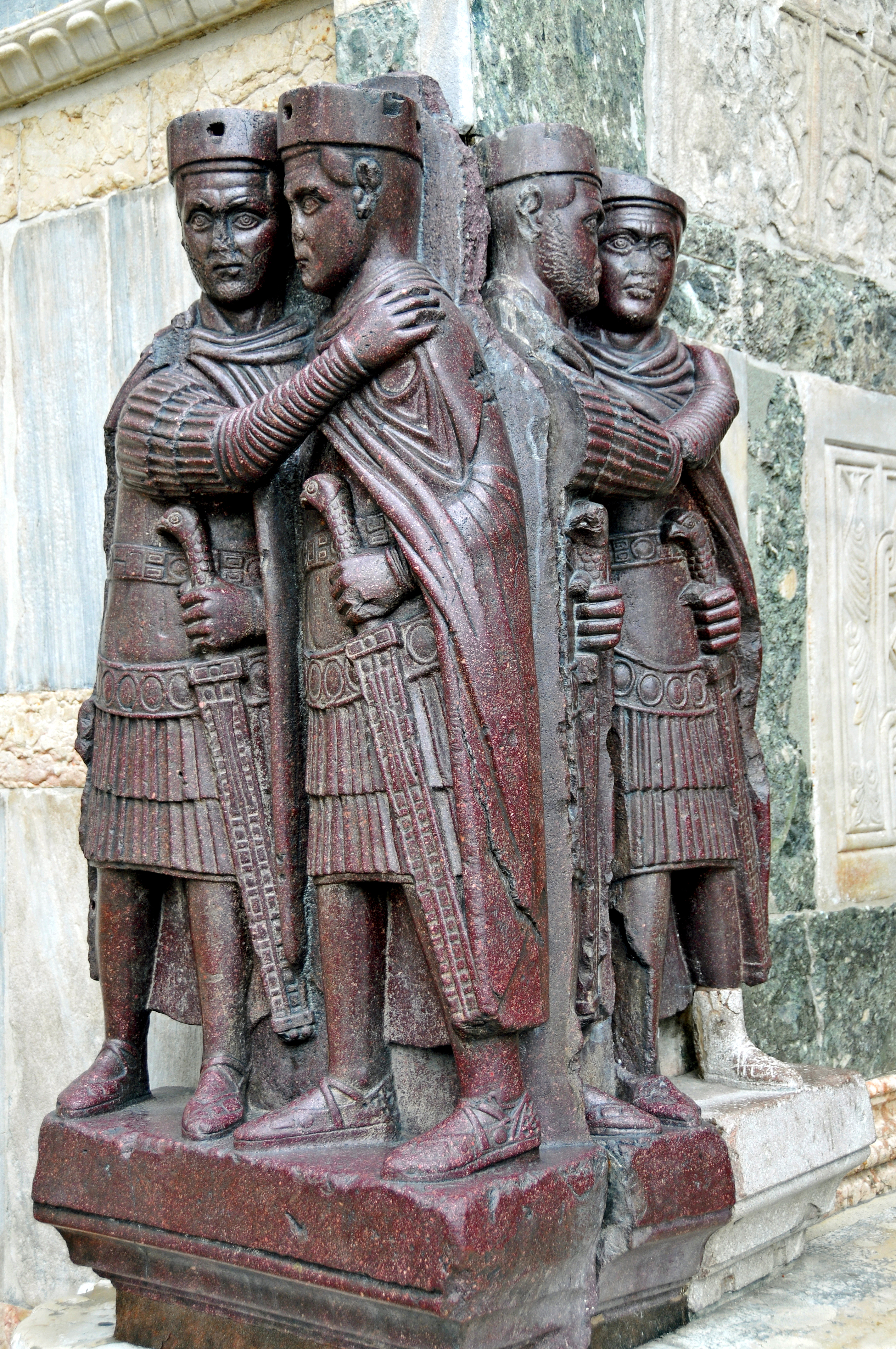 This porphyry statue represents the inter-dependence of the four rulers (the Tetrarchs). It was taken from Constantinople, during the Fourth Crusade in 1204, and set into the south-west corner of the basilica. The term Tetrarchy describes a system of government where power is divided among four individuals, but usually refers to the tetrarchy instituted by Roman Emperor Diocletian in 293, marking the end of the Crisis of the Third Century and the recovery of the Roman Empire, it lasted until 313 AD.